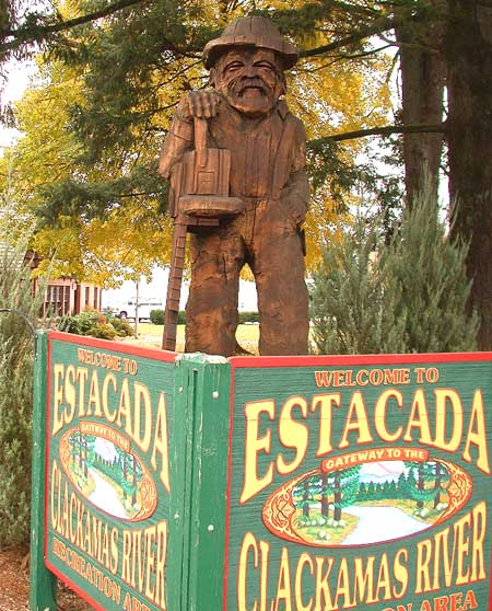 Wooden sculpture in downtown Estacada (taken Nov. 13, 2004) © 2004 Matthew Trump